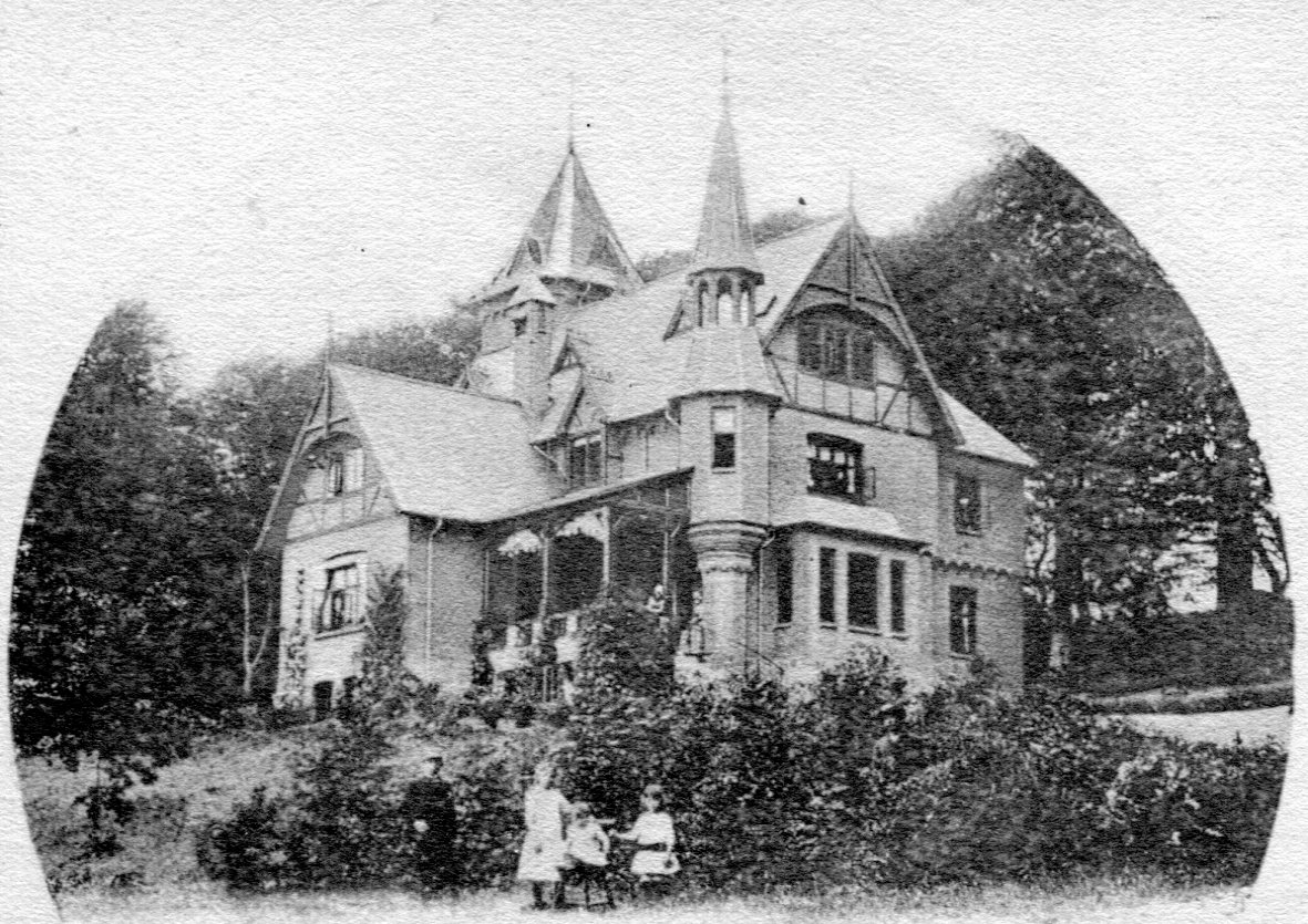 The manor Kockenhus in Scania, Sweden